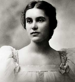 Anita Florence Hemmings